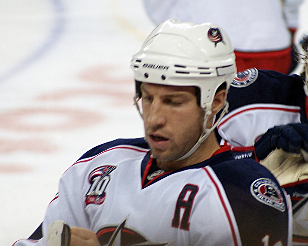 Richard Allen "R. J." Umberger, Jr., born May 3, 1982 in Pittsburgh, Pennsylvania, is an American hockey player currently with the Columbus Blue Jackets of the National Hockey League. This NHL game action photo was taken December 13, 2010 at the Scotiabank Saddledome in Calgary, Alberta.